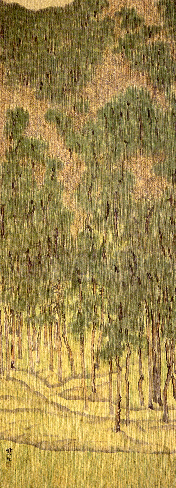 Imamura Shiko: Rain, 1915. Ink and color on silk, 126x50 cm. Yokohama National Museum of Art.